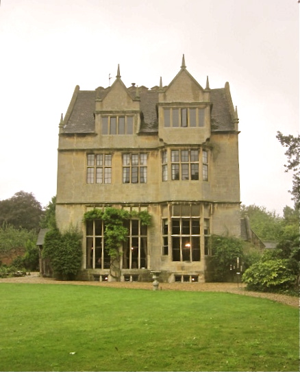 The east front of Dowsby Hall, a Grade II* listed early 17th-century Jacobean house situated in Dowsby, 6 miles (10 km) to the to the north of Bourne in Lincolnshire, England.